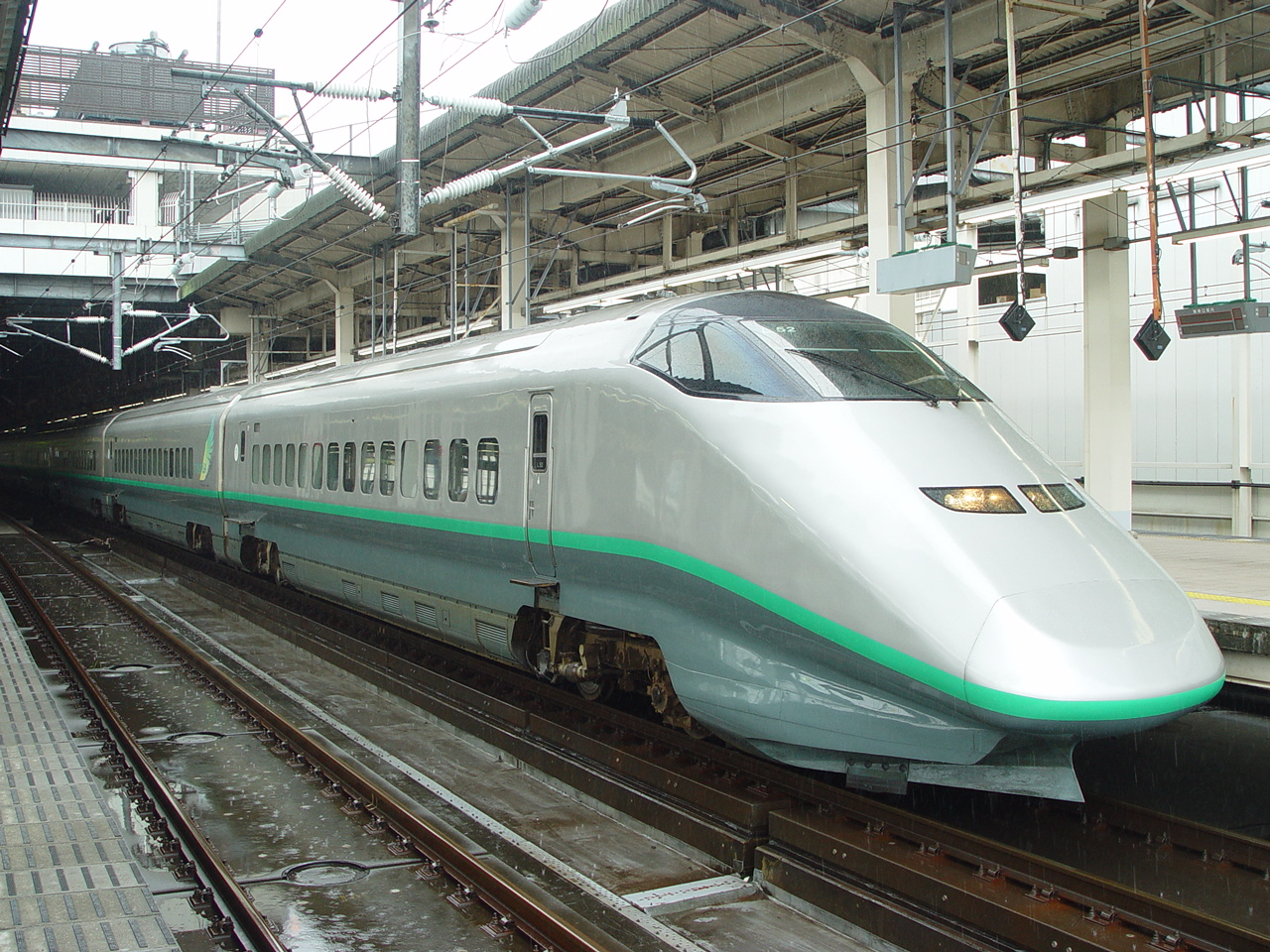 JR East E3-1000 series set L52 at Omiya Station on the Max-Yamabiko/Tsubasa 115 service to Shinjo